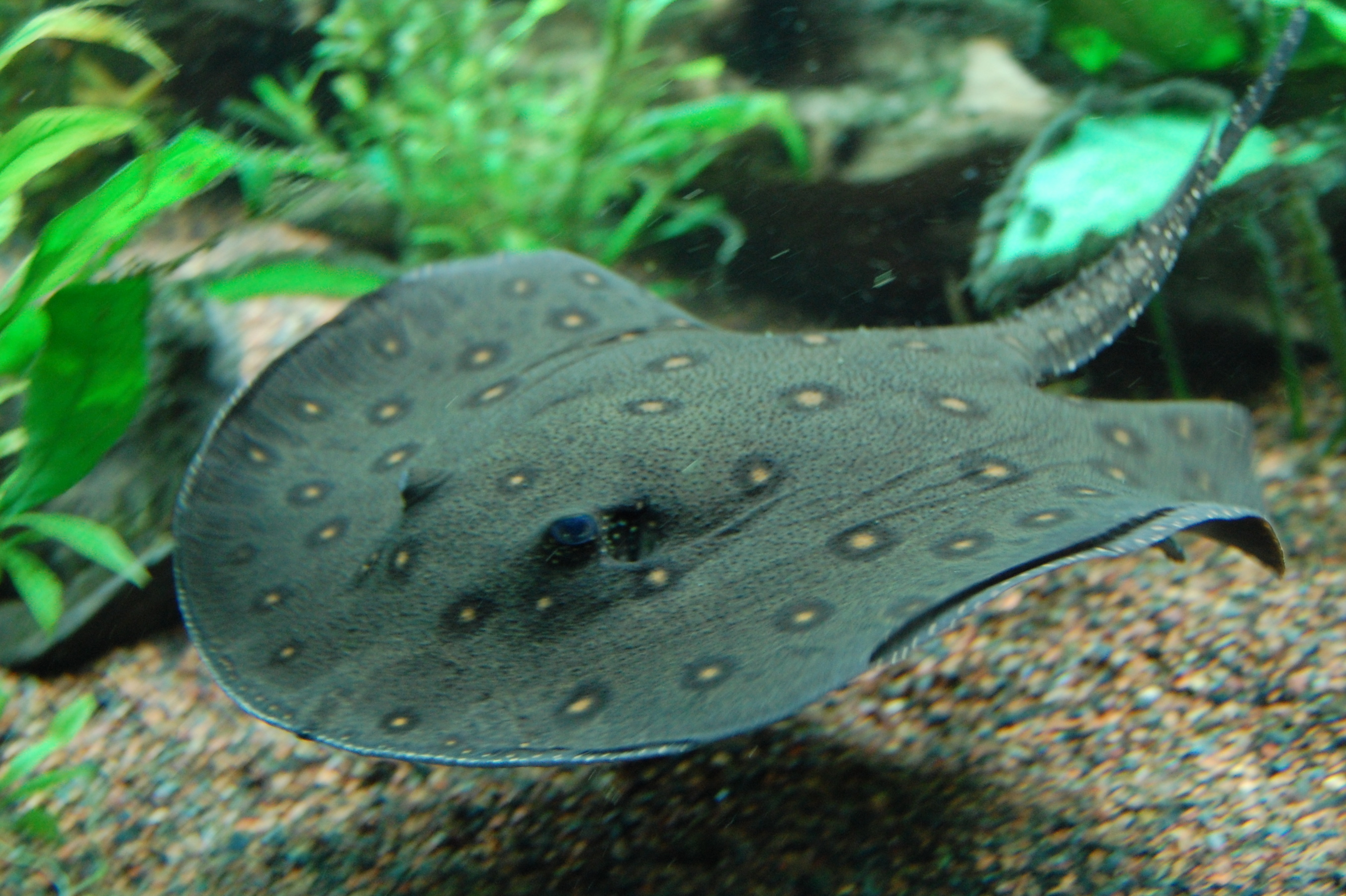 Ocellate river stingray (Potamotrygon motoro) at the New England Aquarium, Boston MA.